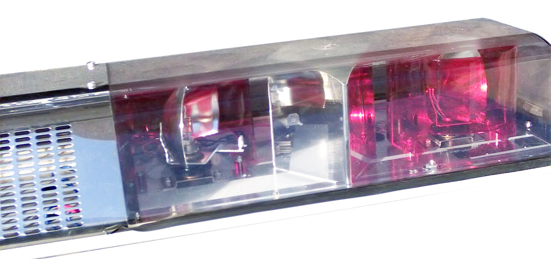 Photo I took of a lightbar, to show the inner mechanism